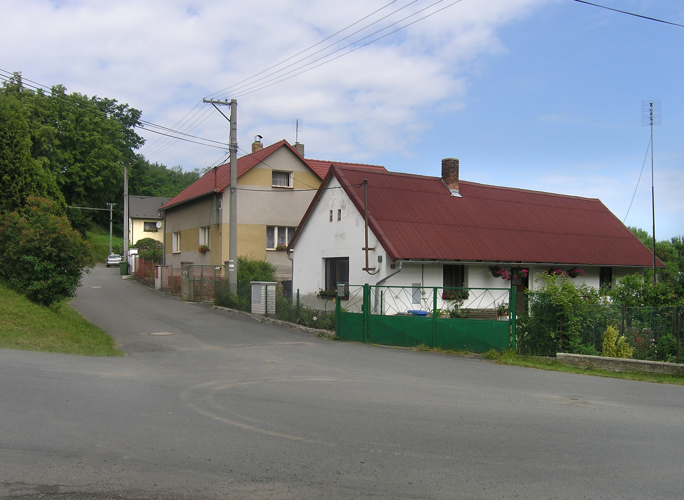 House No. 25 in Srbice, part of Votice, Czech Republic.